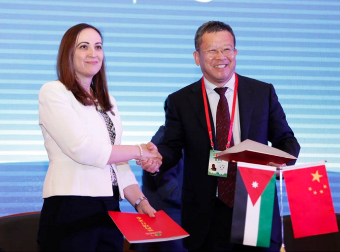 Jordan and China representatives negotiate trade deals worth $7 billion USD